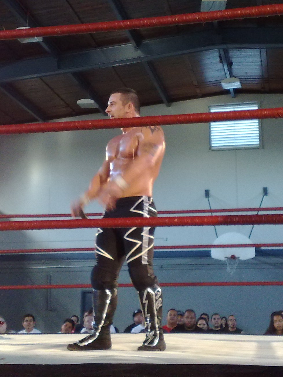 Davey Richards in the ring at a Pro Wrestling Guerrilla show in May 2008.